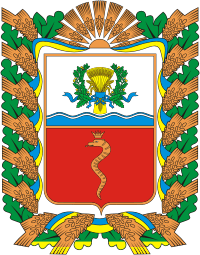 Coats of arms of Zmijivskyj raions